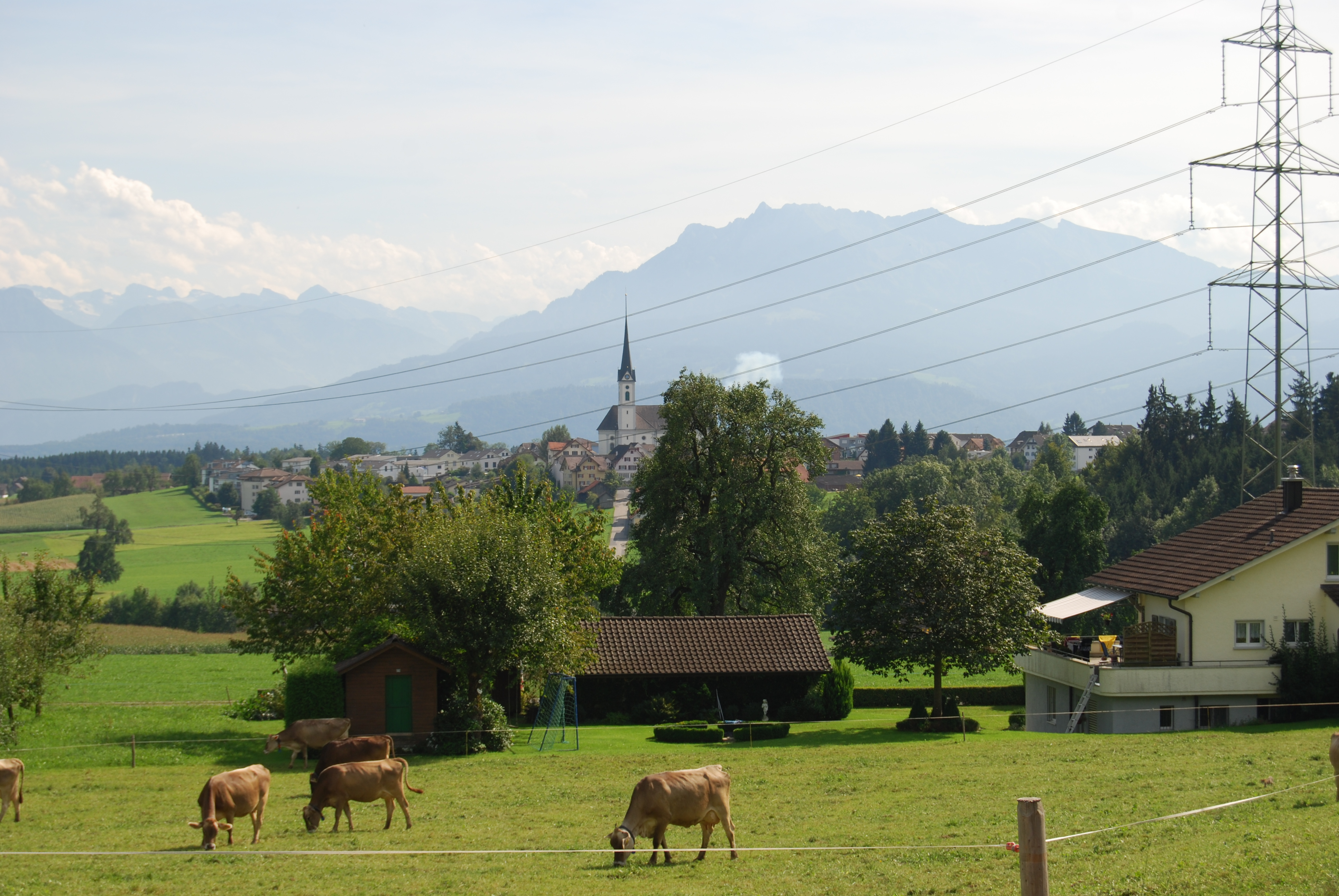 Rain, canton of Lucerne, SwitzerlandEsperanto: Rain, Kantono Lucerno, Svislando